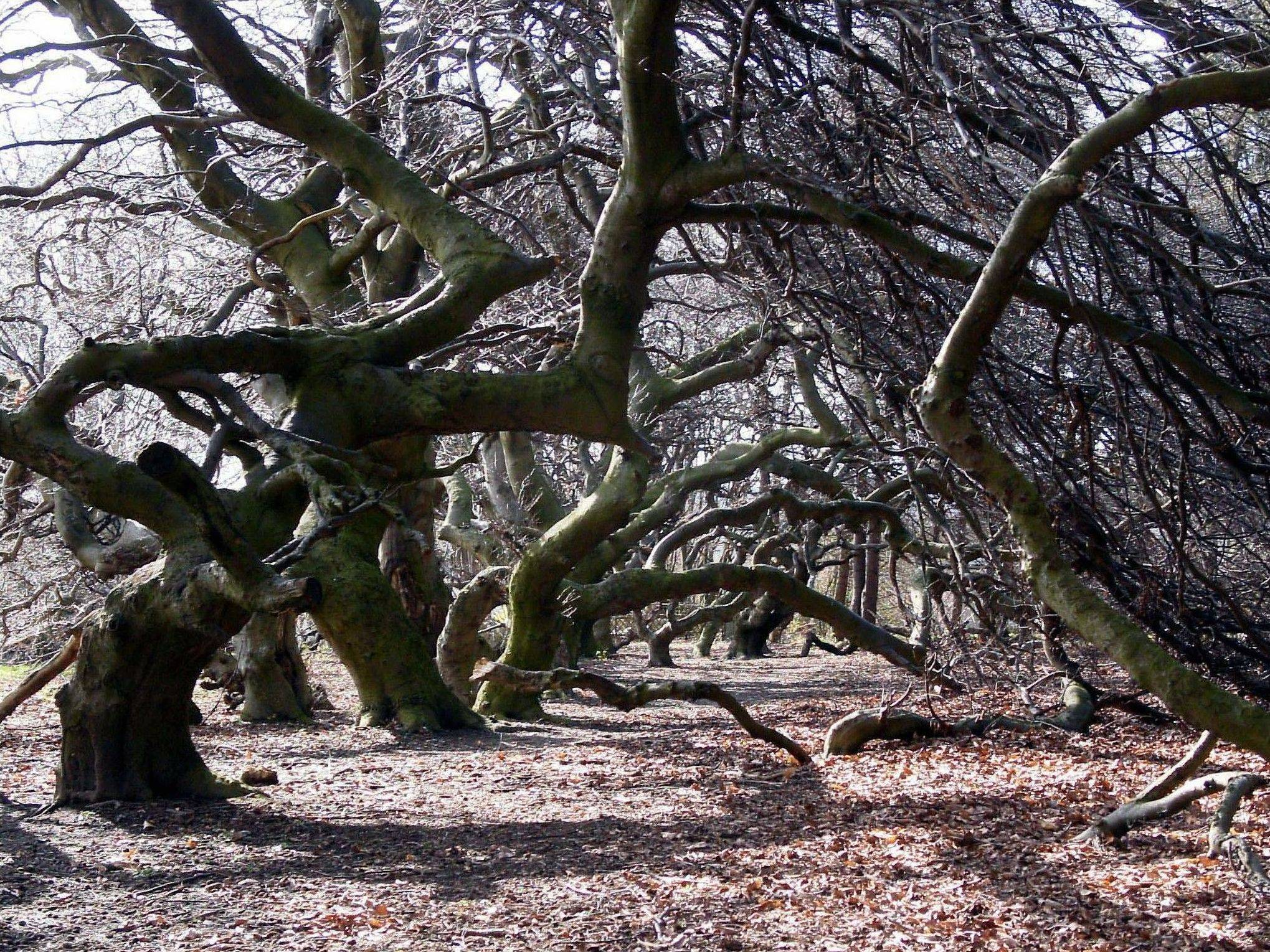 Round about 100 Dwarf Beeches in the Kurpark (spa gardens) of Bad Nenndorf in Lower Saxony (Germany), up to 100 years old. In 1930 approximately 20-30 Dwarf Beeches (10-20 years old and all of them seedlings of a very famous Dwarf Beech named Tilly-Buche) were plant in the park, the rest of the trees came up from the resurfaced roots (not from seeds/beechnuts) in the following decades.